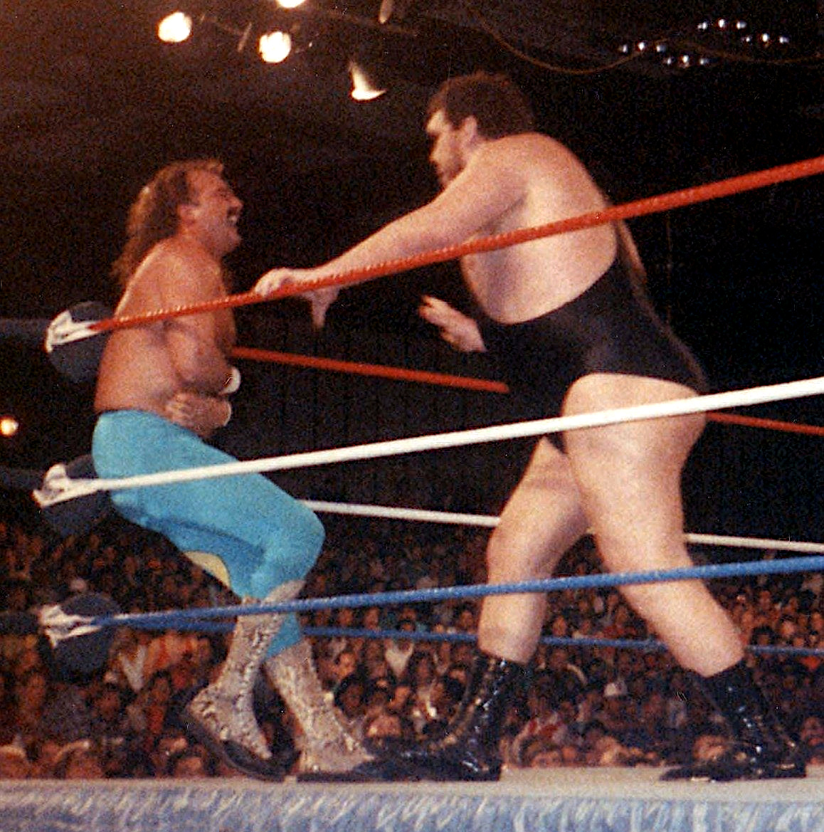 Jake Roberts (left) and Andre the Giant (right) during a match in 1989, as part of their feud over Andre's fear of snakes